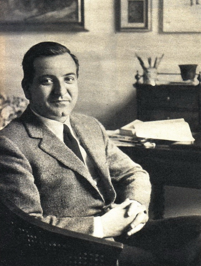 Italian writer Goffredo Parise in the house of a friend in Milan